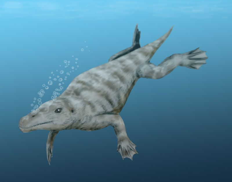 Georgiacetus vogtlensis, a primitive whale from the Late Eocene of Georgia (USA). Digital.